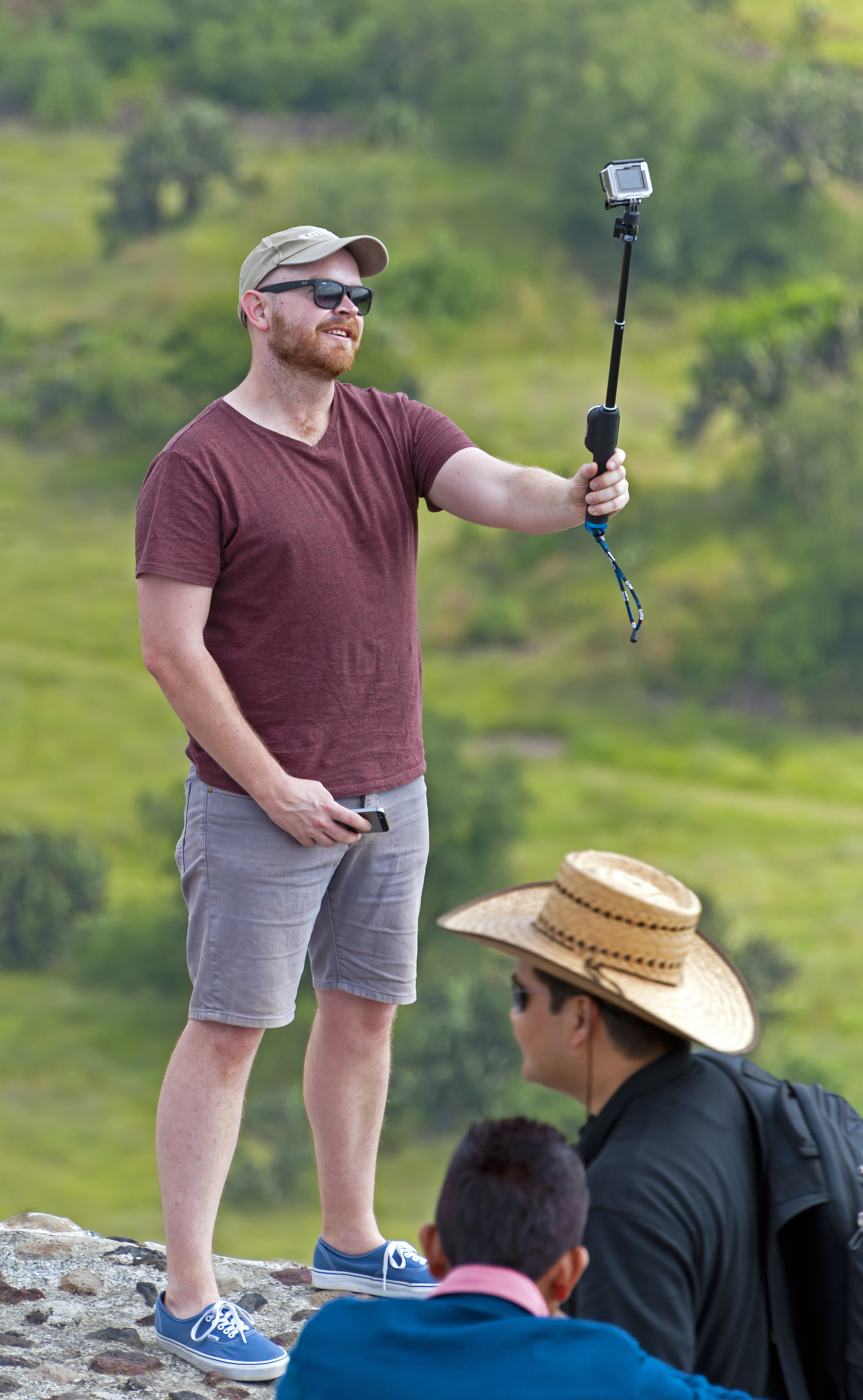 A visiting Wikimedian tourist takes a selfie with a stick near the top of the Piramide del Sol at Teotihuacan during the Wiki Loves Pyramids visit after Wikimania 2015